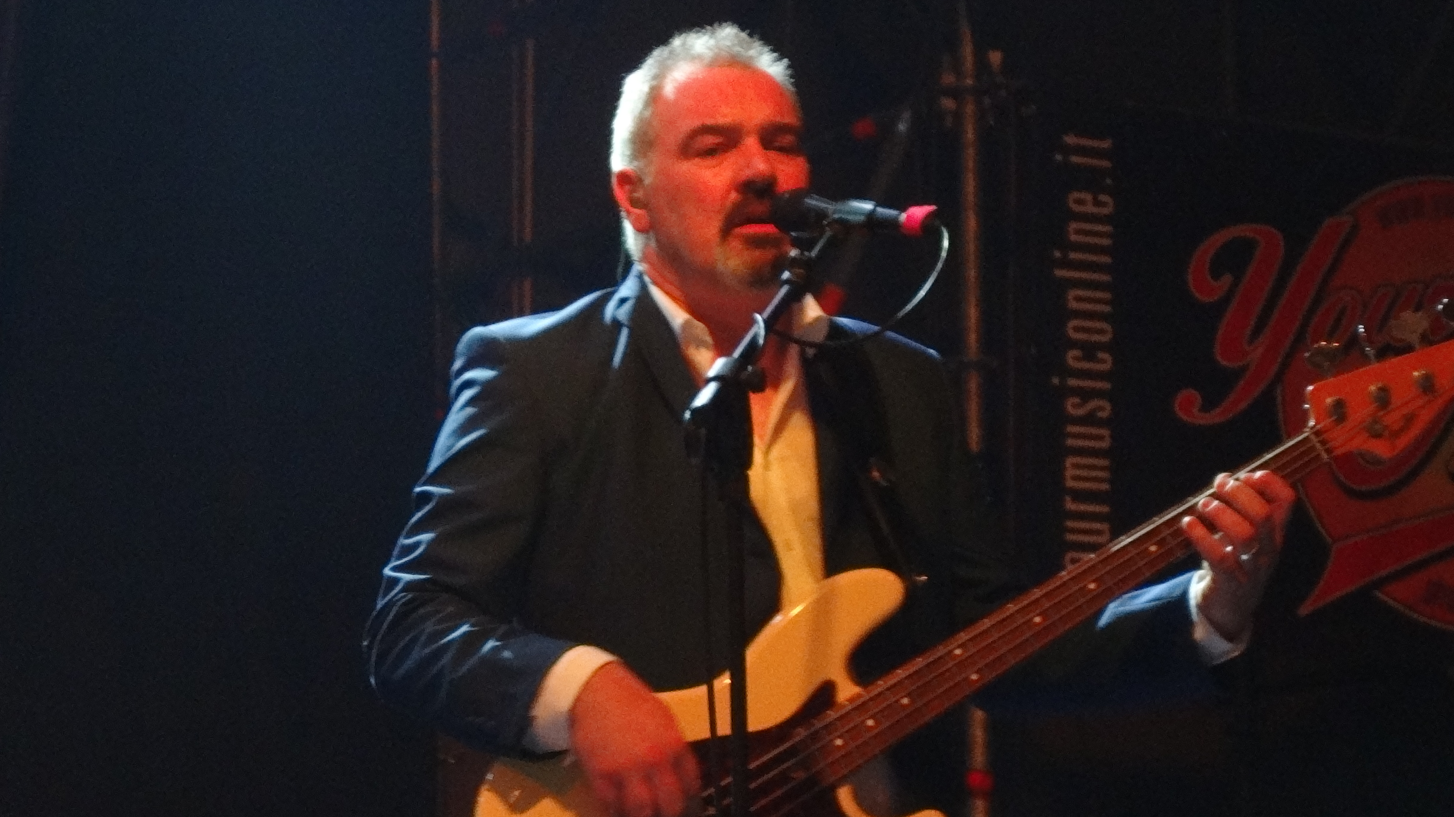 Scott Firth live 27 10 2013